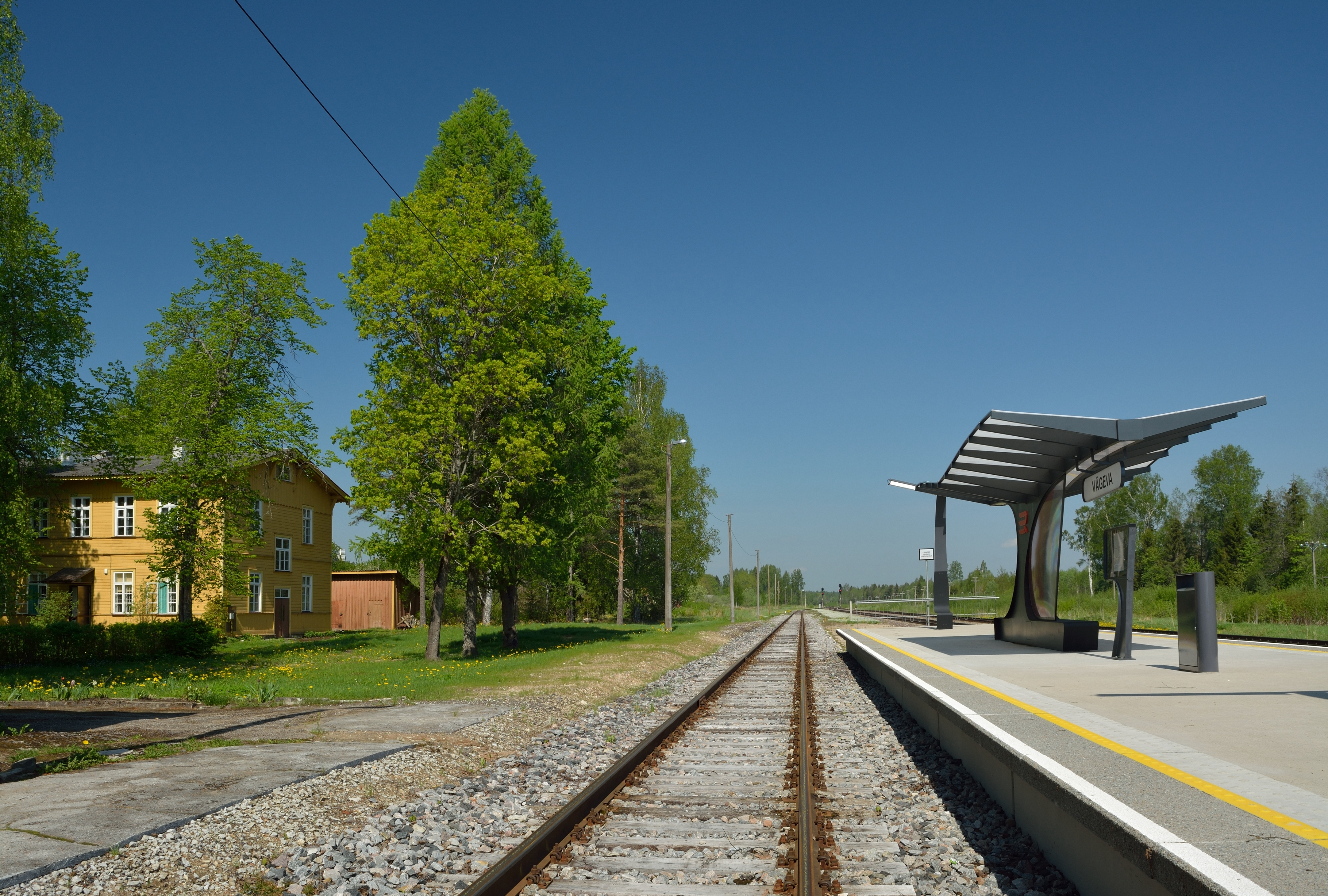 Vägeva railway station